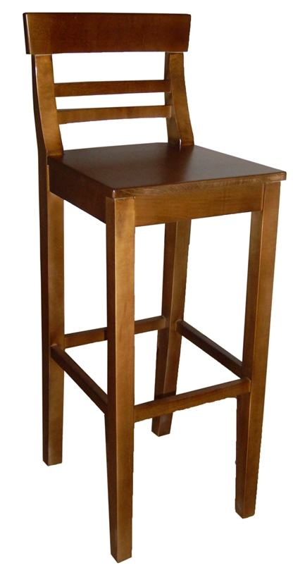 Bar Chair EffectStyle